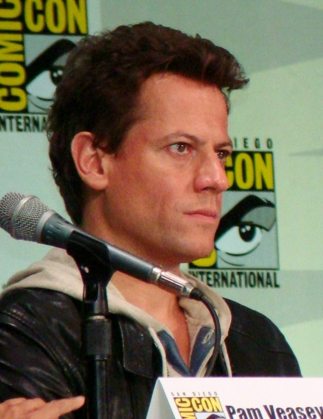 Ioan Gruffudd, Nestor Carbonell, Sarah Michelle Gellar and Kristoffer Polaha at Ringer Panel at the 2011 Comic-Con International